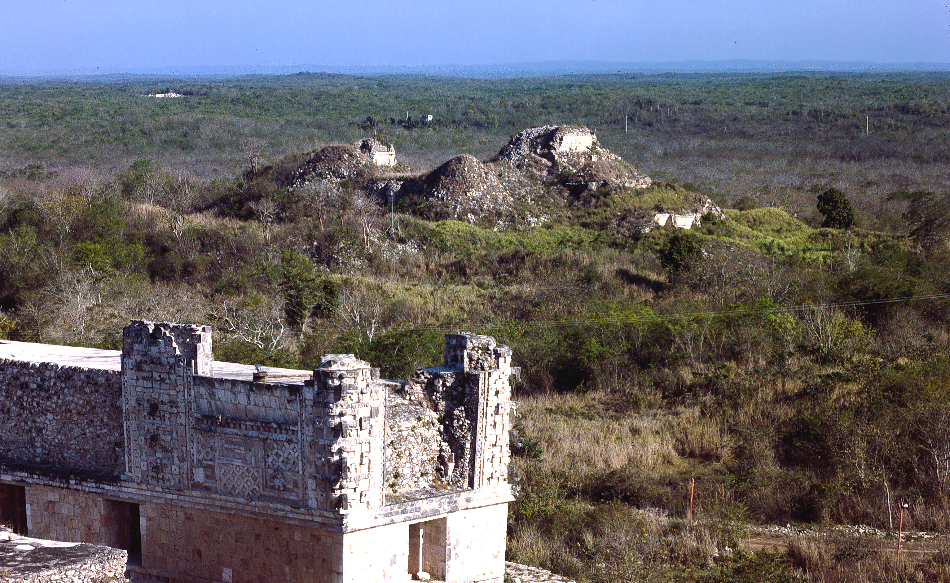 Uxmal, Yucatan, Mexico: North Group seen from Adivino